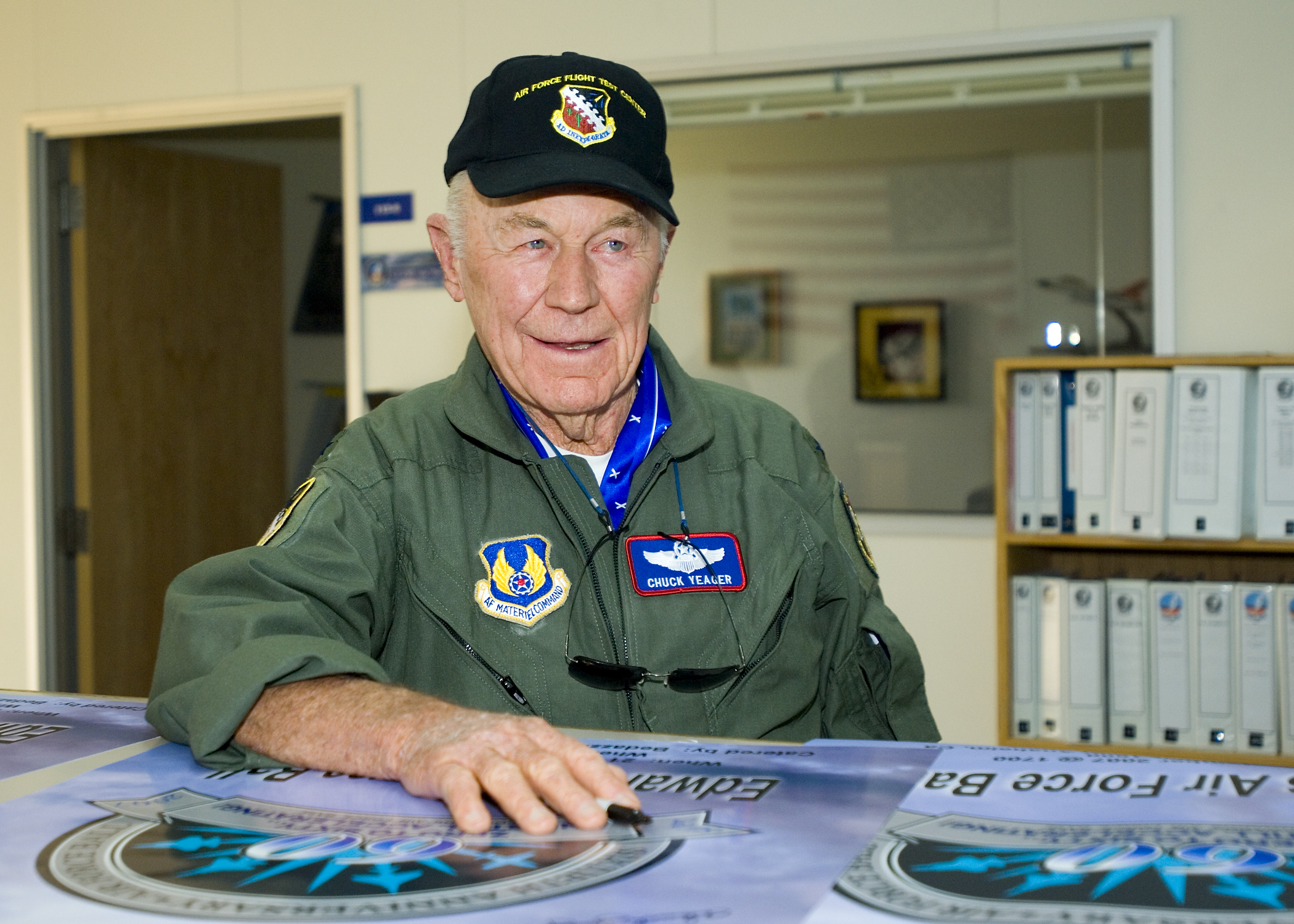 Retired Brig. Gen. Chuck Yeager pauses for a moment while autographing several Edwards Air Force Ball posters at Test Operations here Sept. 21. General Yeager flew an F-16 to Mach 1 at the Air Force Ball and produced a sonic boom commemorating his first supersonic flight 60 years earlier.